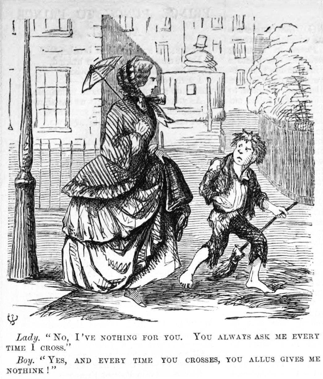 Punch cartoon from 1856 depicting a young "crossing sweeper" seeking payment from a well-to-do woman, who refuses it. Image cropped from a digitized version of the original page.